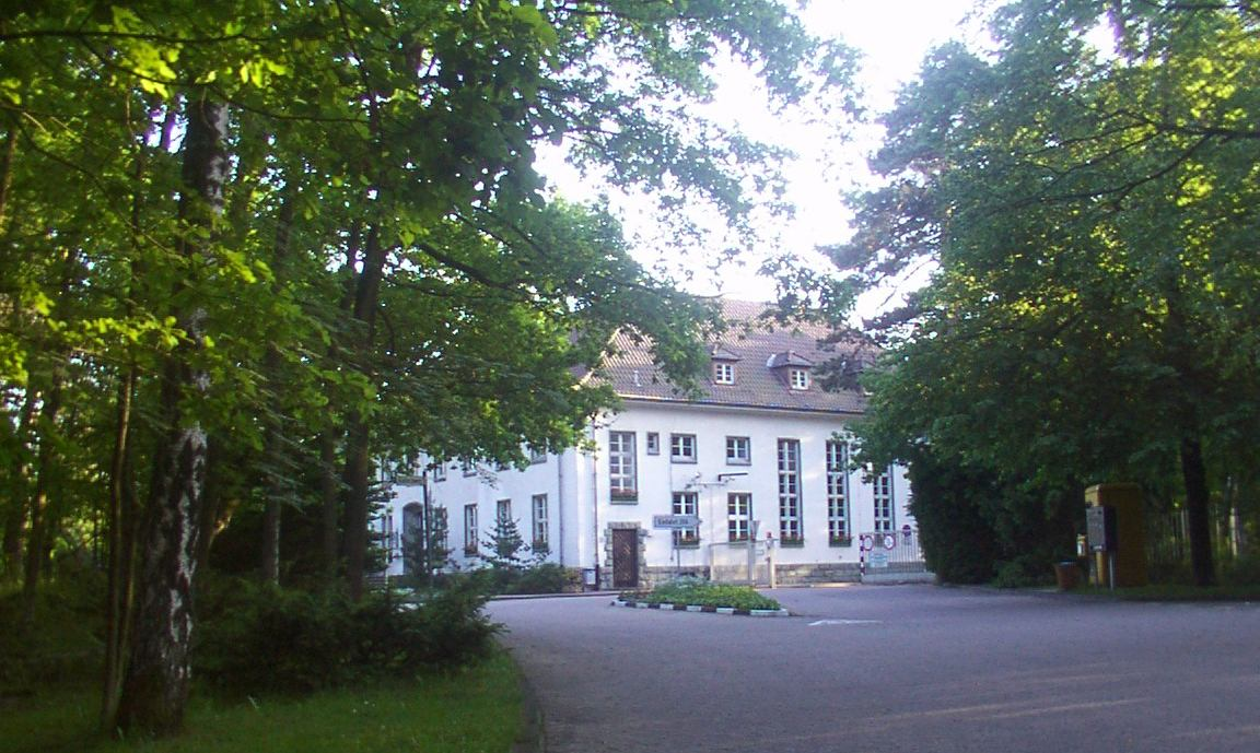 Gate to the Hövelhof Prison